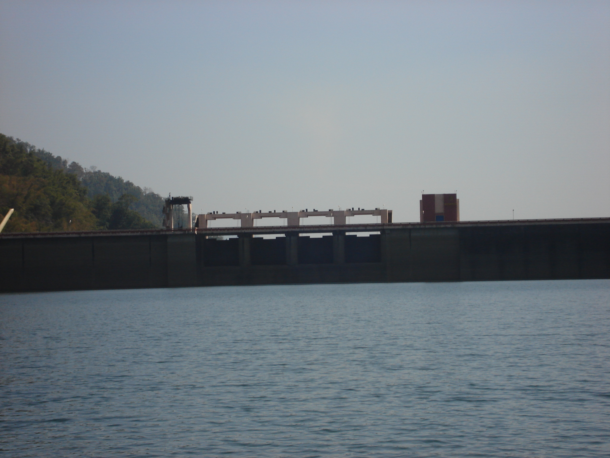 Upstream View of Idamalayar Dam